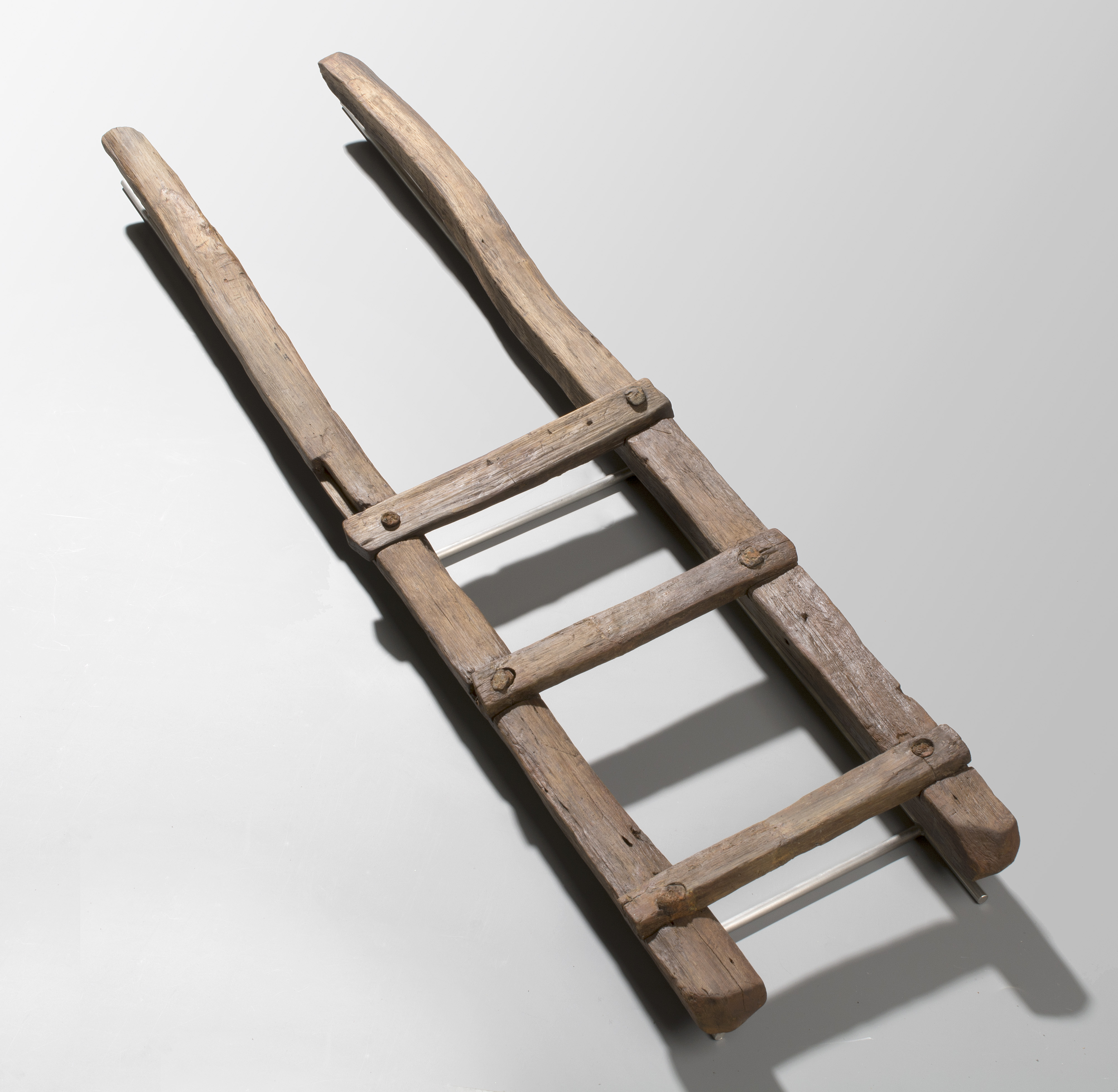 Wooden ladder from the Roman era, found in Kesteren-De Woerd.